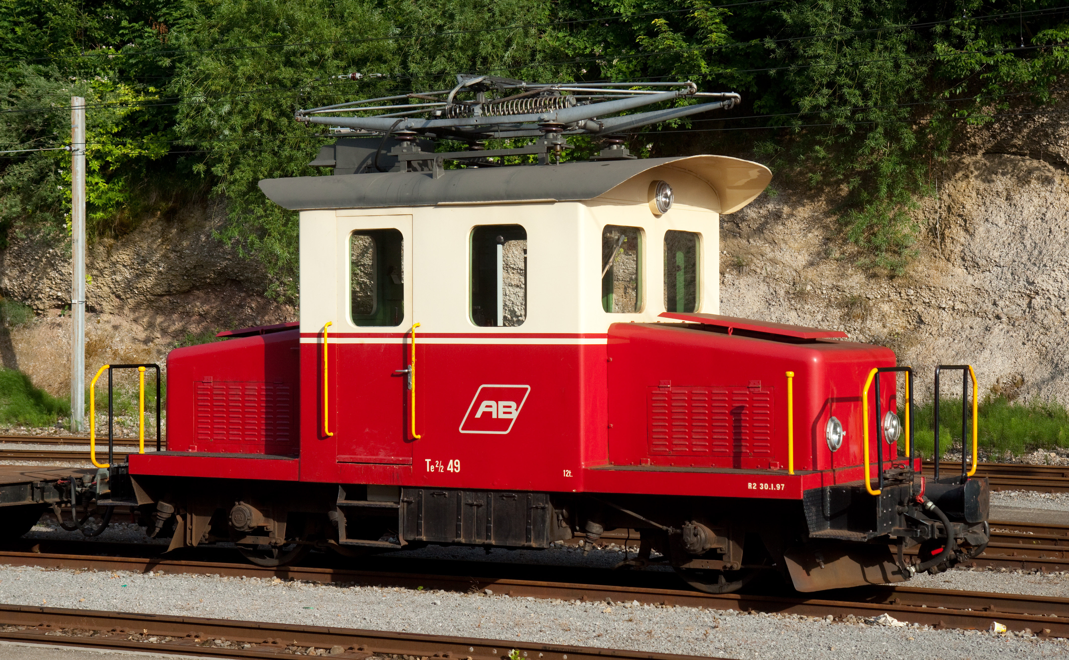 Former light electric freight locomotive, later departmental shunter Te 2/2 49 of Appenzeller Bahnen at Herisau. Underframe origins from a 1912 vintage Säntisbahn railcar. Since 2012 this locomotive belongs to the historic stock and is again labelled as Ge 2/2